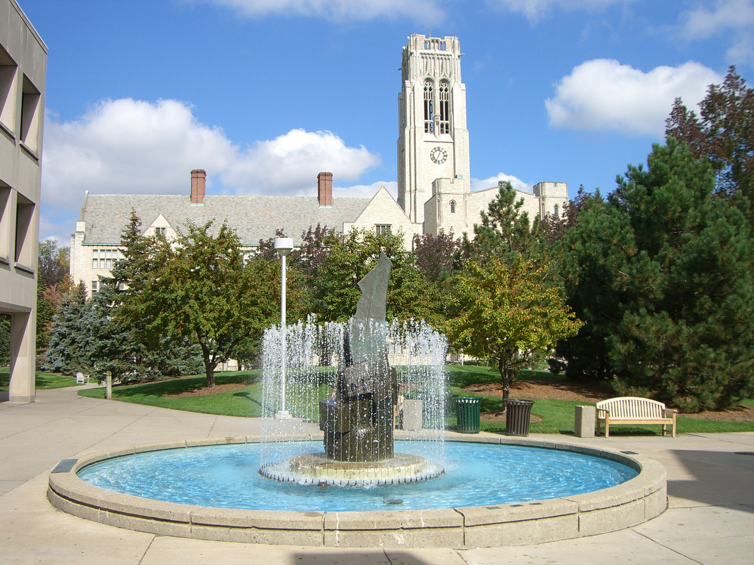 Picture of the clock tower on University Hall at the University of Toledo.